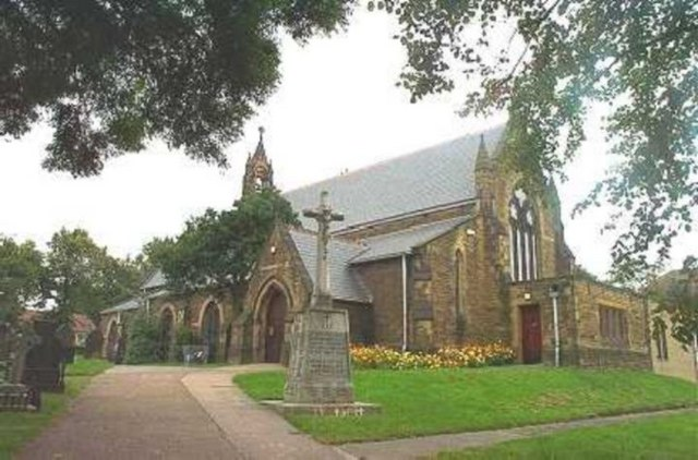 Parish church of St John The Baptist, Church Street, Cudworth, South Yorkshire, seen from the southeast